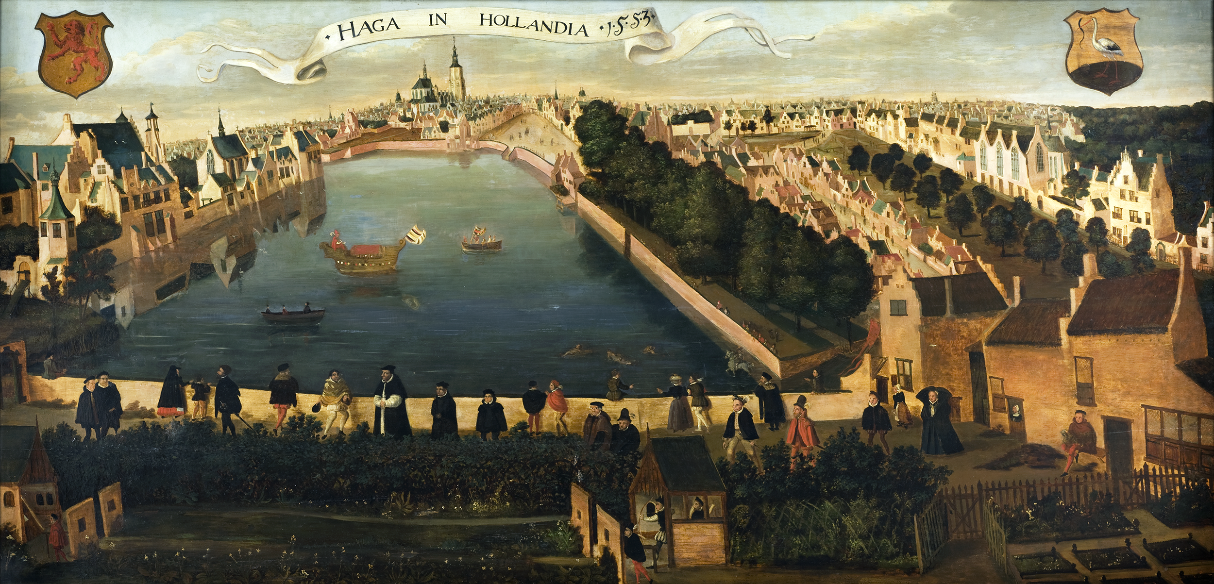 The Hofvijver pond in the Hague, seen from the shooting ranges of the Hague civic guard.